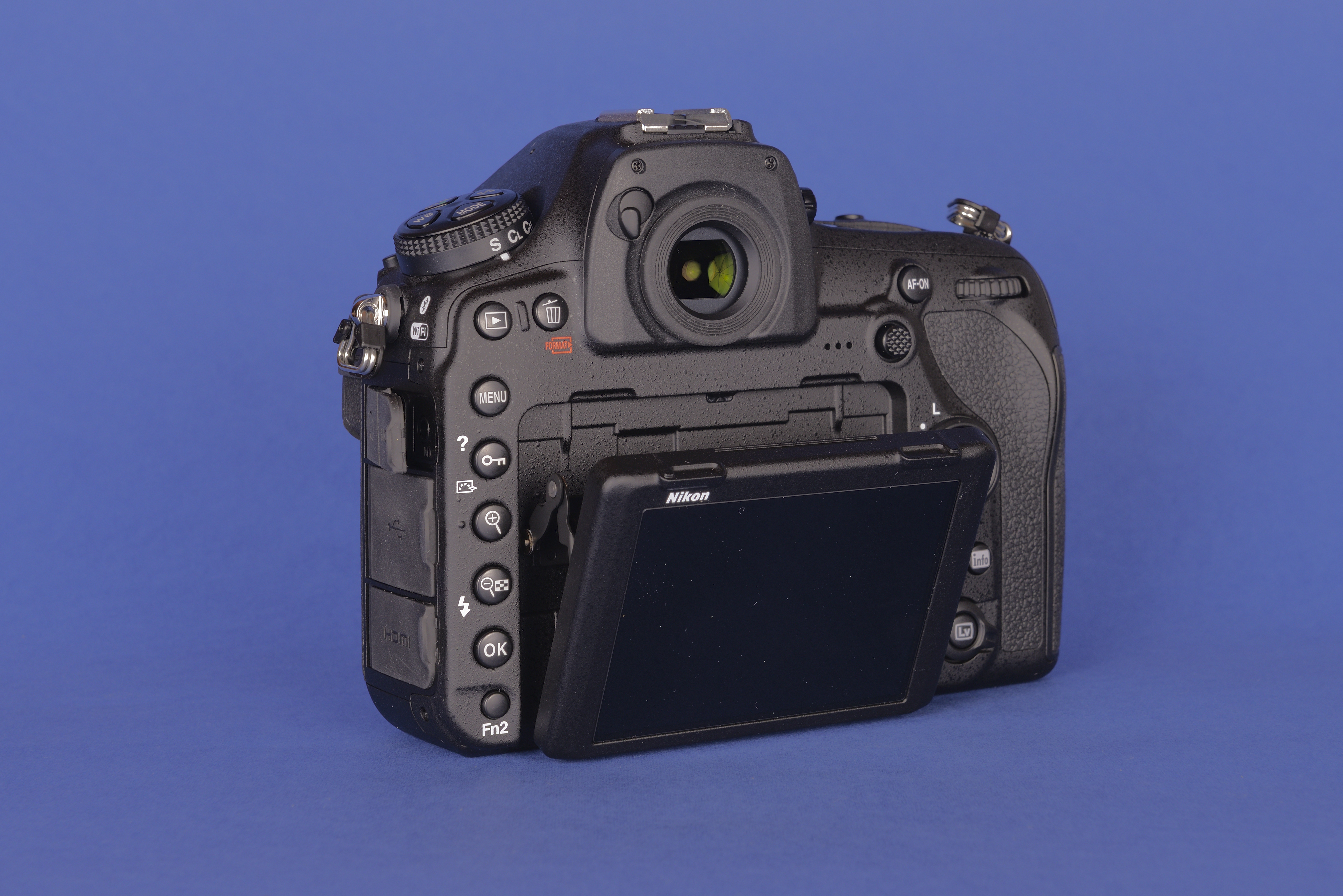 Professional-grade full-frame digital single-lens reflex camera (DSLR) Nikon D850 - lateral-rear view